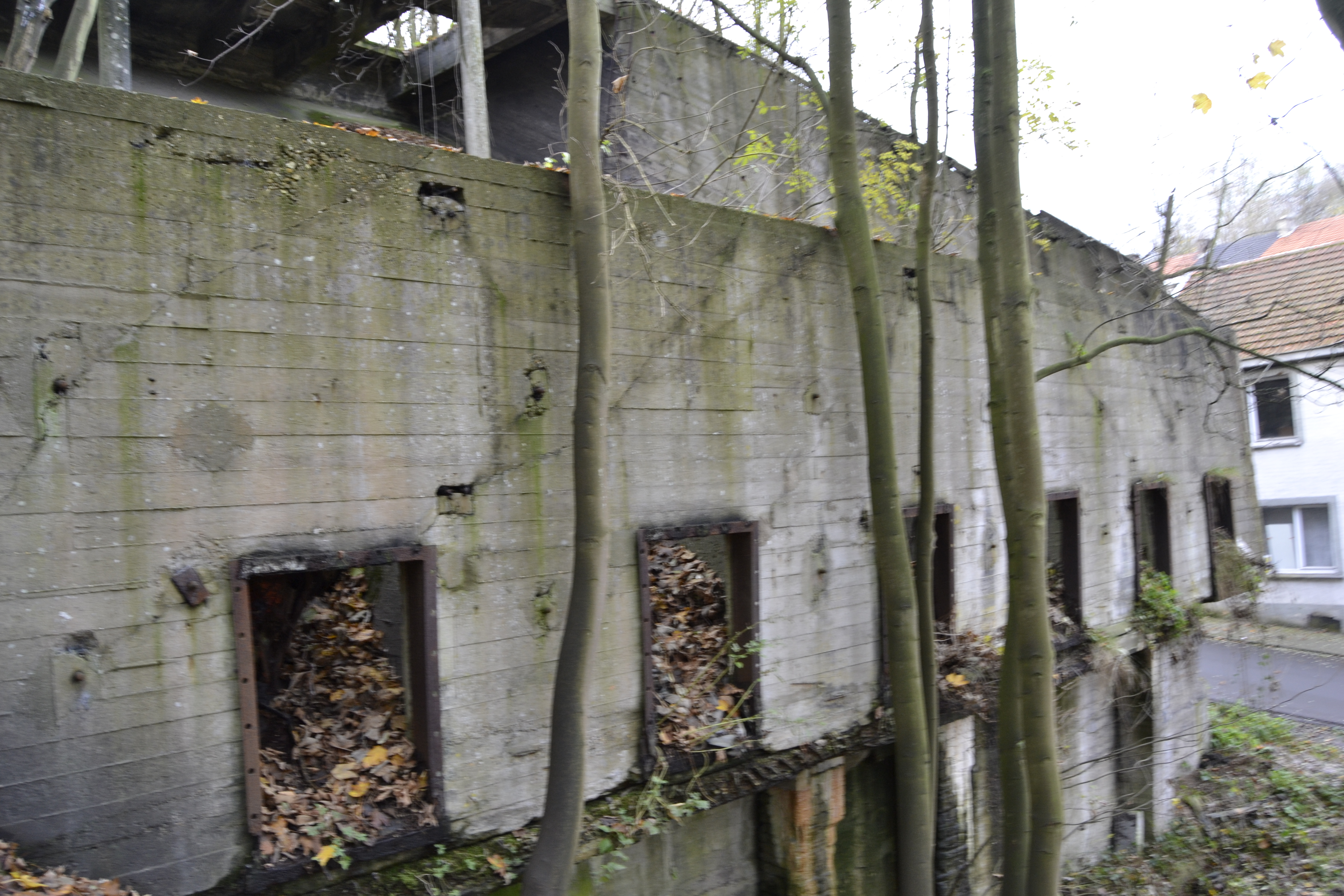 Ancient Grands Makets coal mine in Grace-Hollogne, Belgium